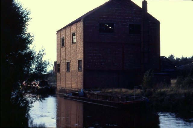 Canal side warehouse near Pelsall Road Bridge. Industrial building on the Wyrley and Essington (Cannock Extension) Canal. This location was near to the Pelsall Road Bridge. There were various buildings and wharfs at this location and it was also once served by a mineral railway.